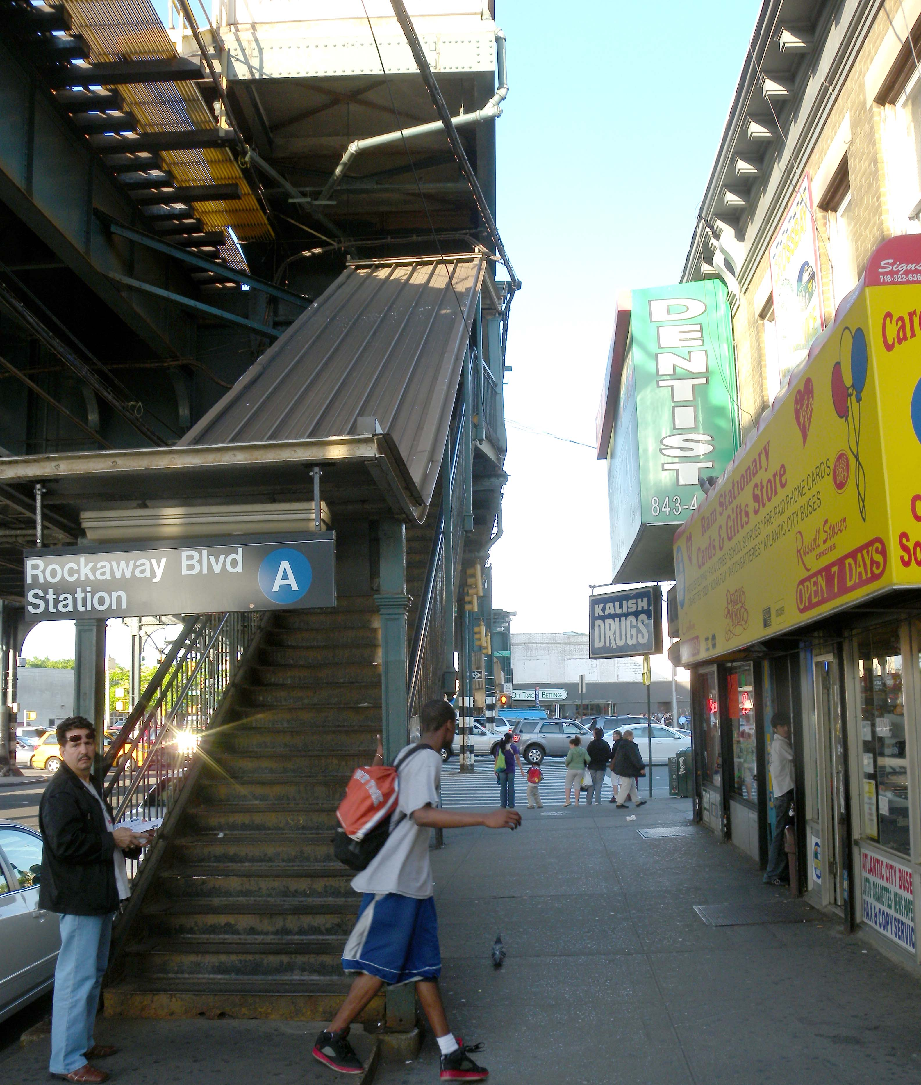 Looking east at Rockaway Blvd elevated A train stair on a sunny afternoon. ZIP 11417.